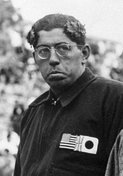 Silver medalist Jack Medica of the United States, gold medalist Noboru Terada of Japan and bronze medalist Shumpei Uto of Japan pose on the podium during the medal ceremony for Swimming Men's 1,500m Freestyle during the Berlin Olympic at Swimming Stadium on August 15, 1936 in Berlin, Germany